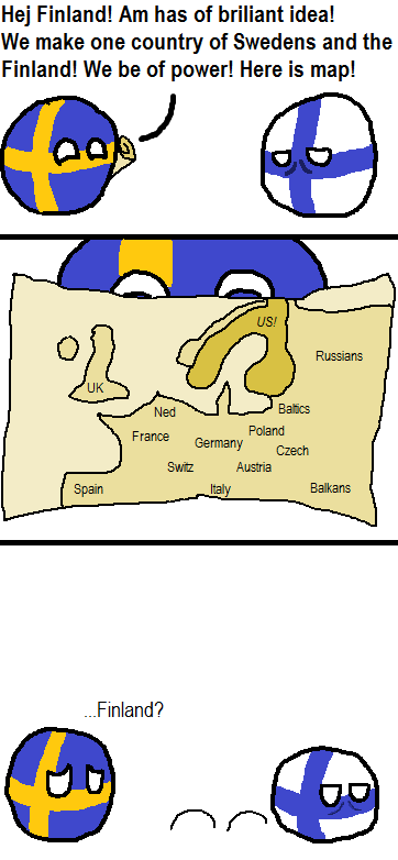 Polandball comic featuring Sweden–Finland